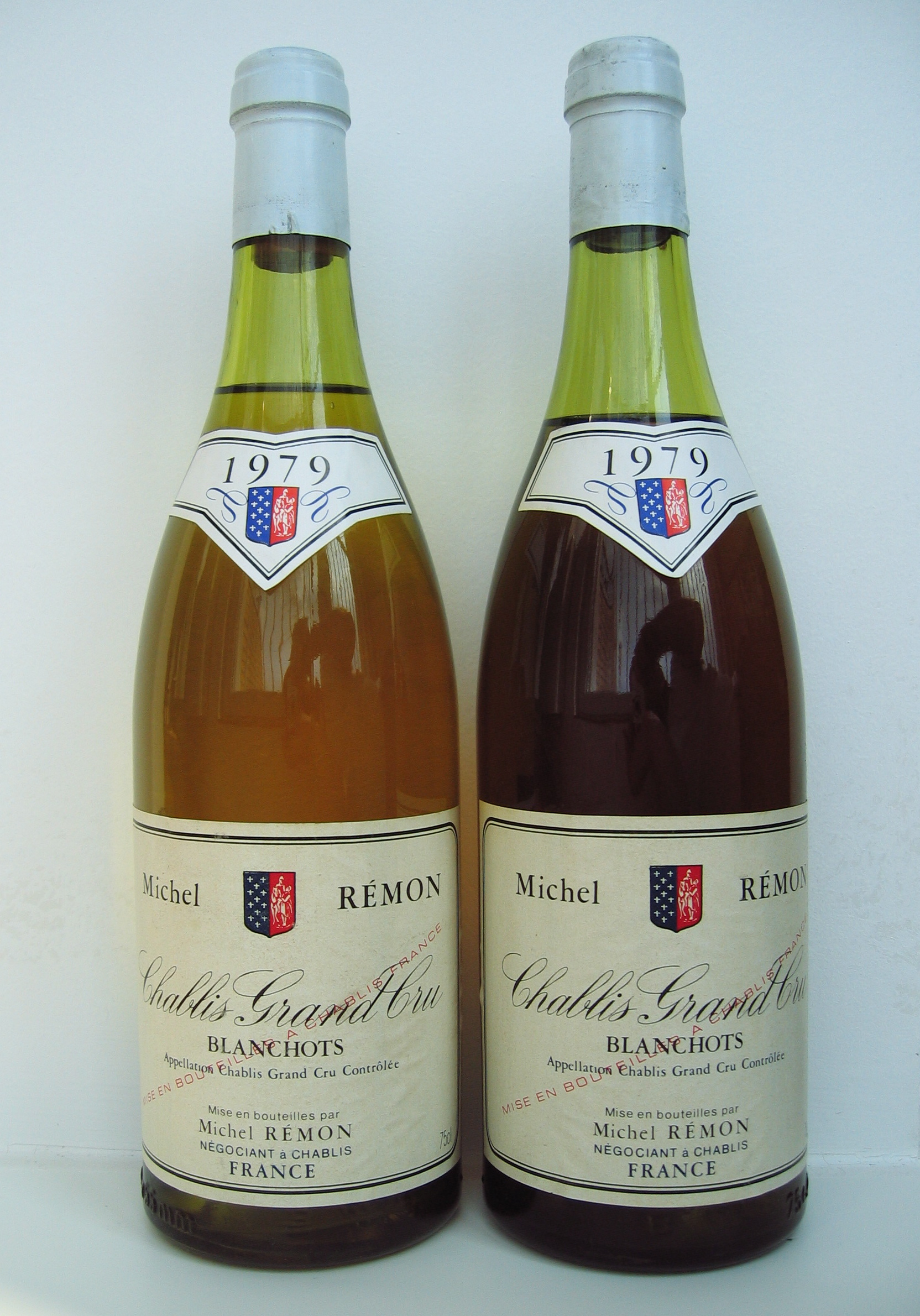 Two bottles of Chablis Grand Cru Blanchots 1979 (producer Michel Remon) at 30 years of age, showing considerable bottle variation in colour.